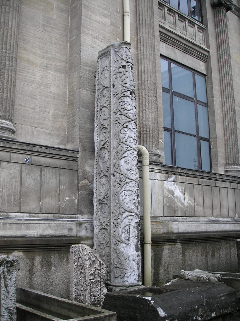 The big pier with plant reliefs, Roman period. Probably used in the Great Palace, 2nd century CE.